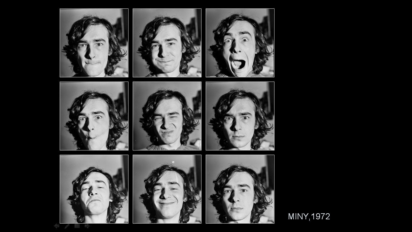 Romualld Kutera, Miny, 1972